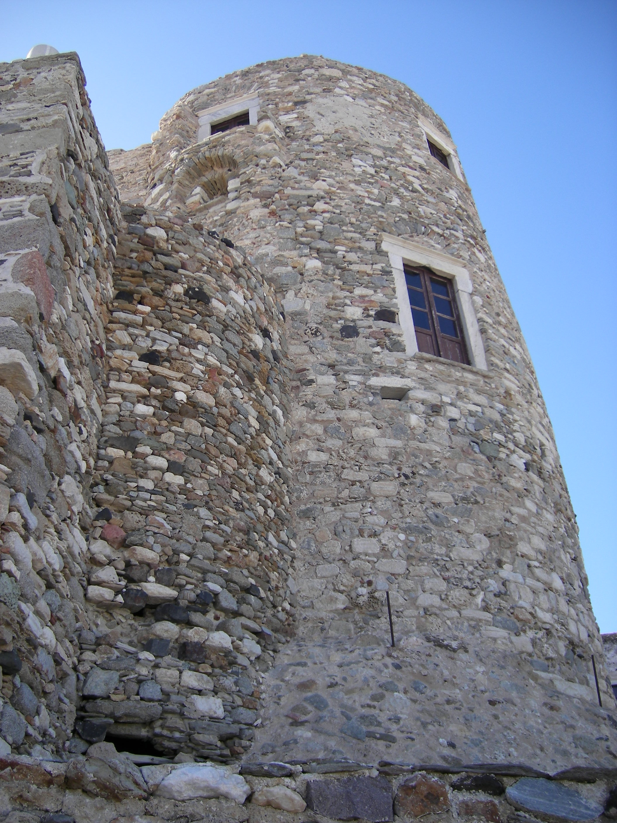 Venetian Castle, «Crispi Tower» or «Gleizos Tower», Naxos town, Naxos / Forteresse vénitienne, «Tour Crispi» ou «Tour Gleizos», Chora, Naxos